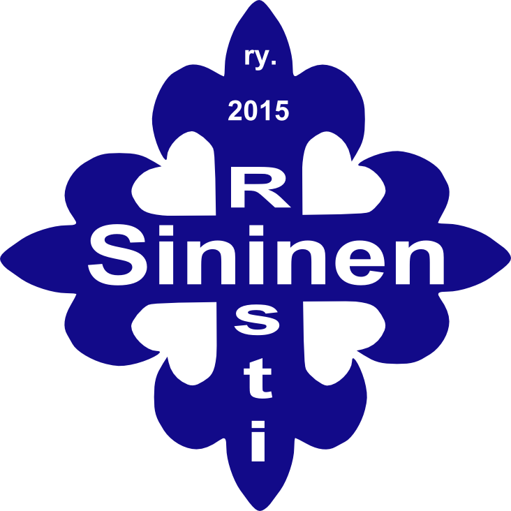 Official logo of Sininen Risti ry.